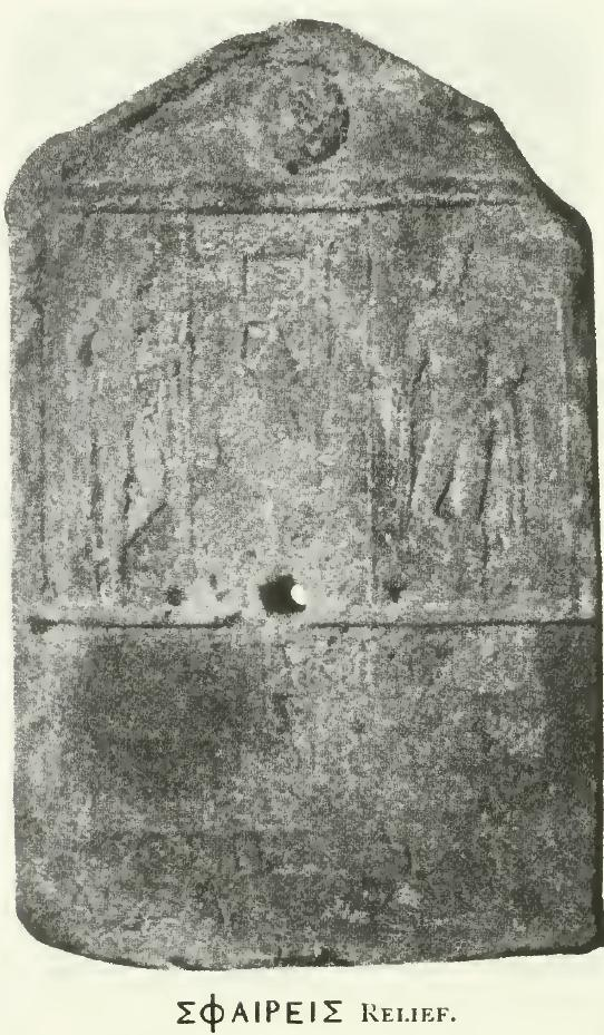 Relief from Sparta